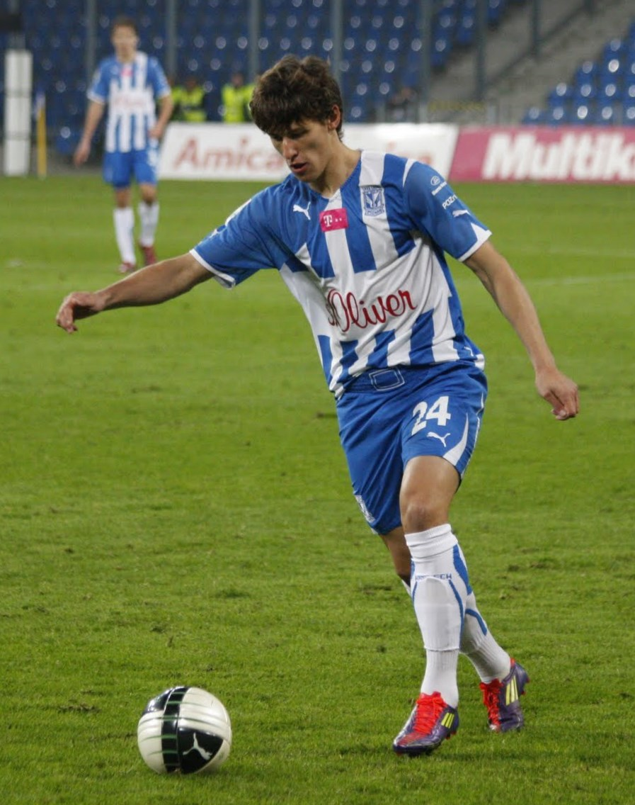 Bulgarian association football player Aleksandar Tonev